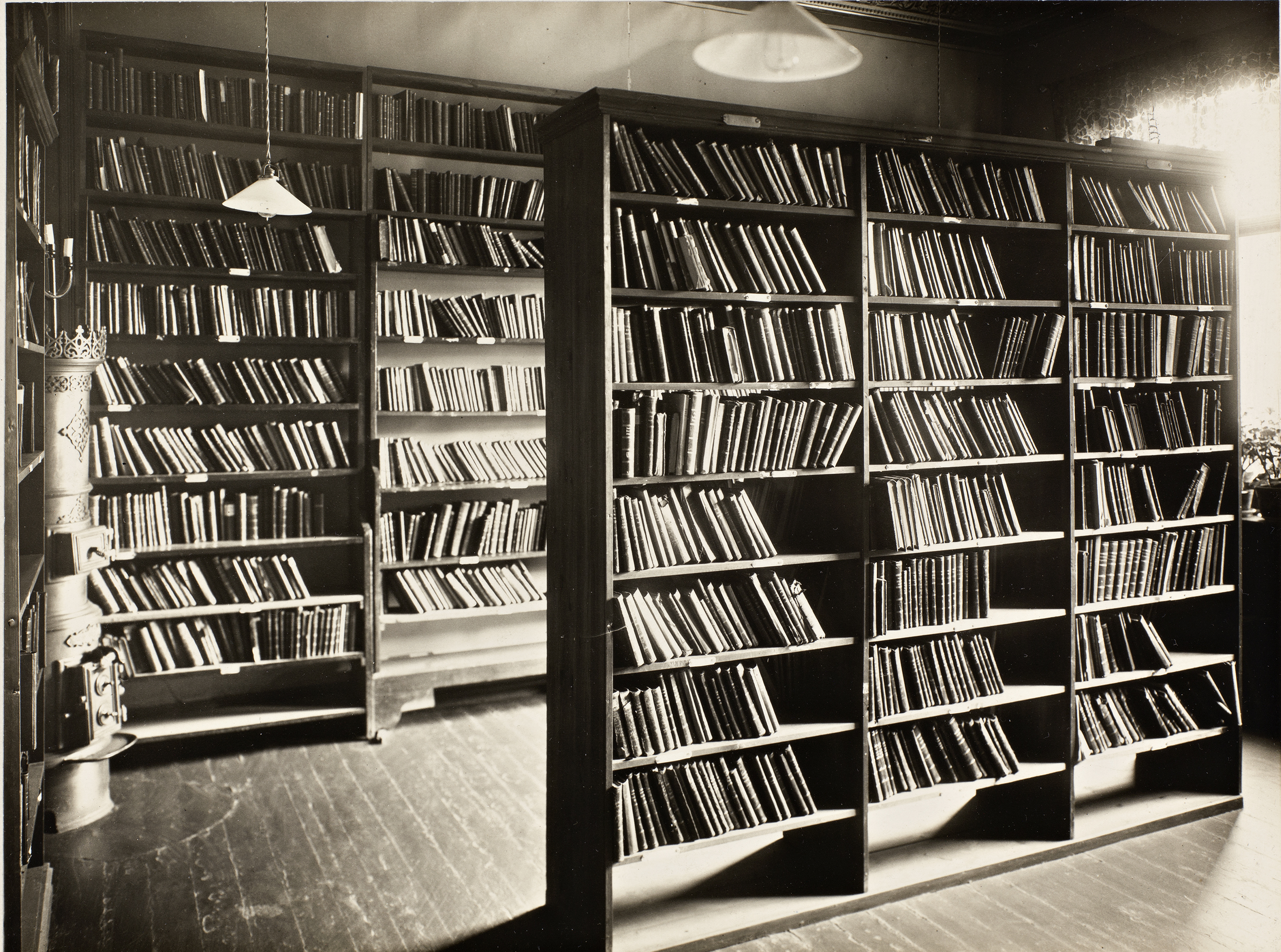 Dato / Date: ukjent / unknown Sted / Place: Oslo, Parkveien 62 Fotograf / Photographer: Eyjolfsson (Kristiania) Digital kopi av original / Digital copy of original: s/h papirpositiv Eier / Owner Institution: Nasjonalbiblioteket / National Library of Norway Lenke / Link: Bildesignatur / Image Number: blds_07037